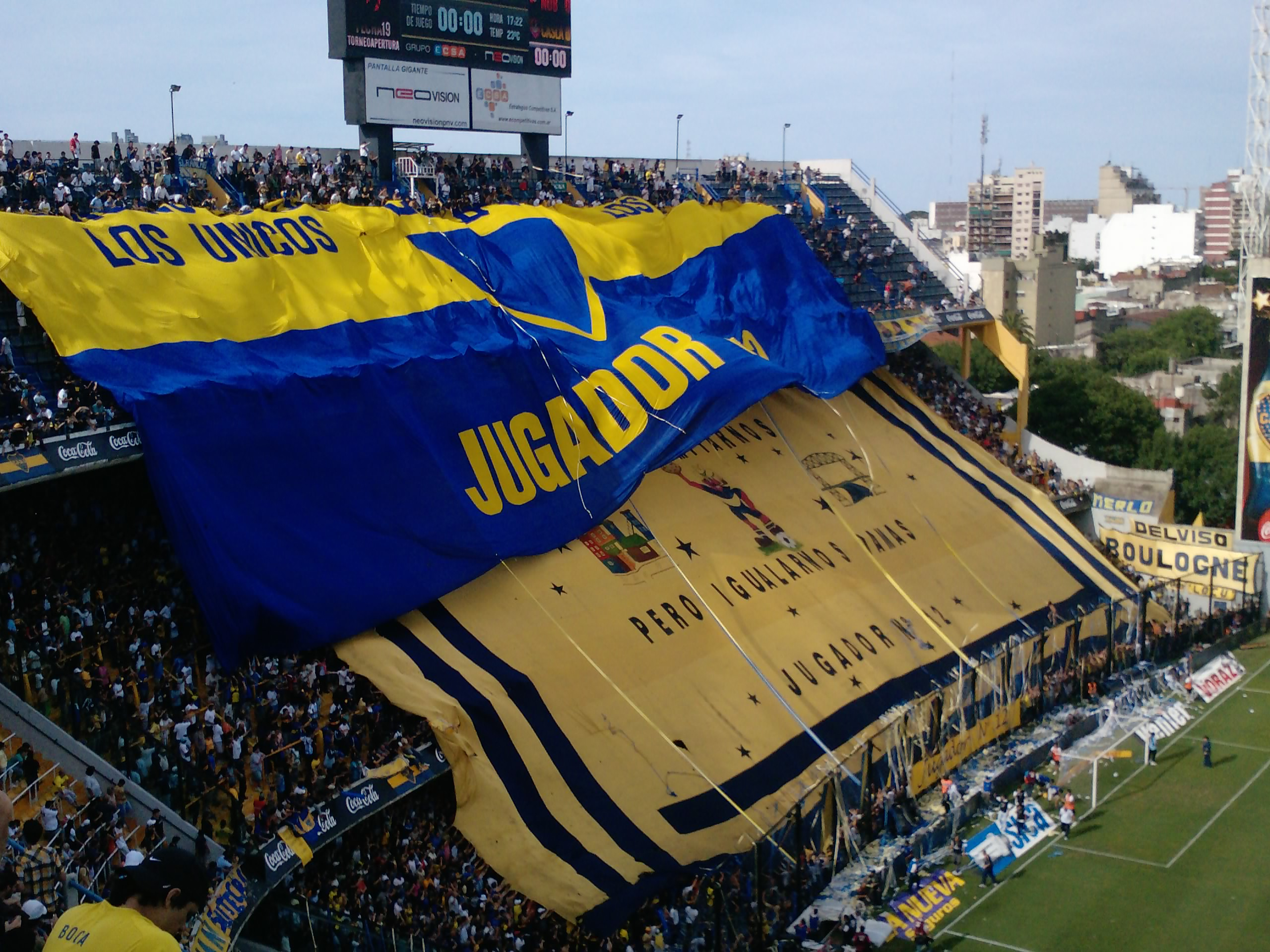 Boca Juniors crowd display its flags